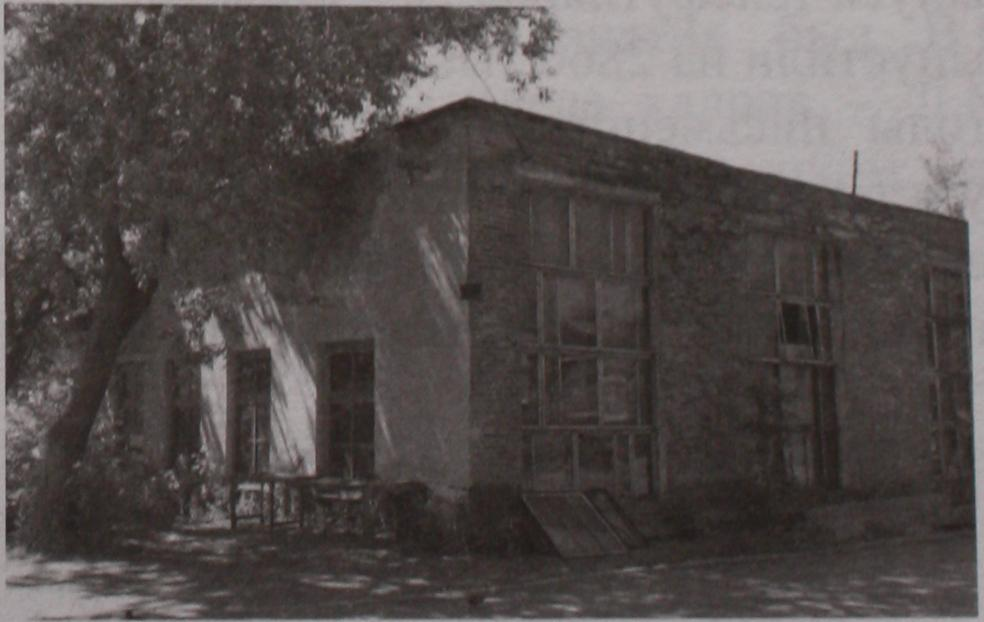 Сарапульский лесозавод, механический цех